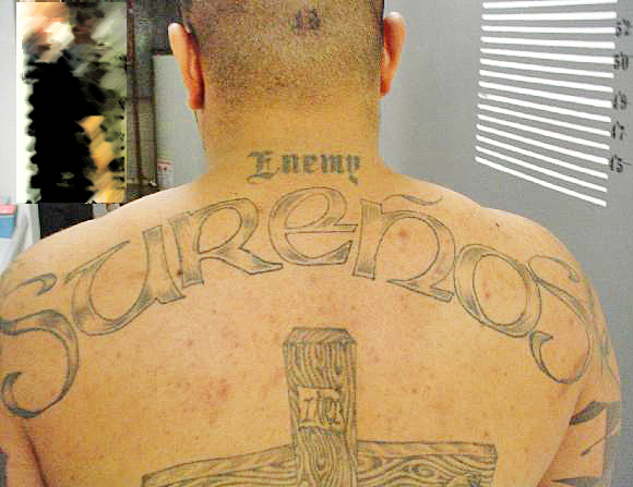 Sureños gang member's tattoos.